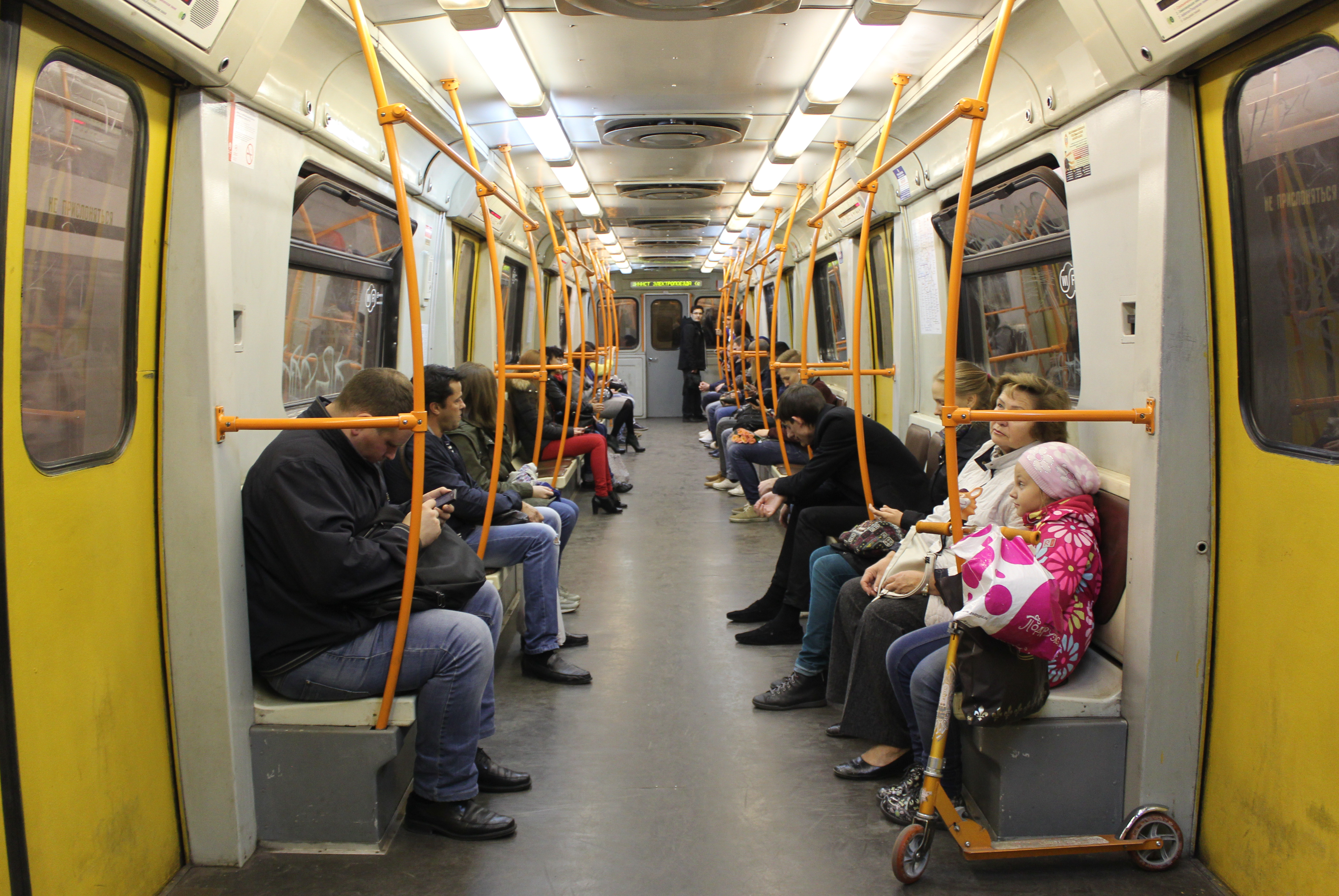 "Jauza" metro wagon interior